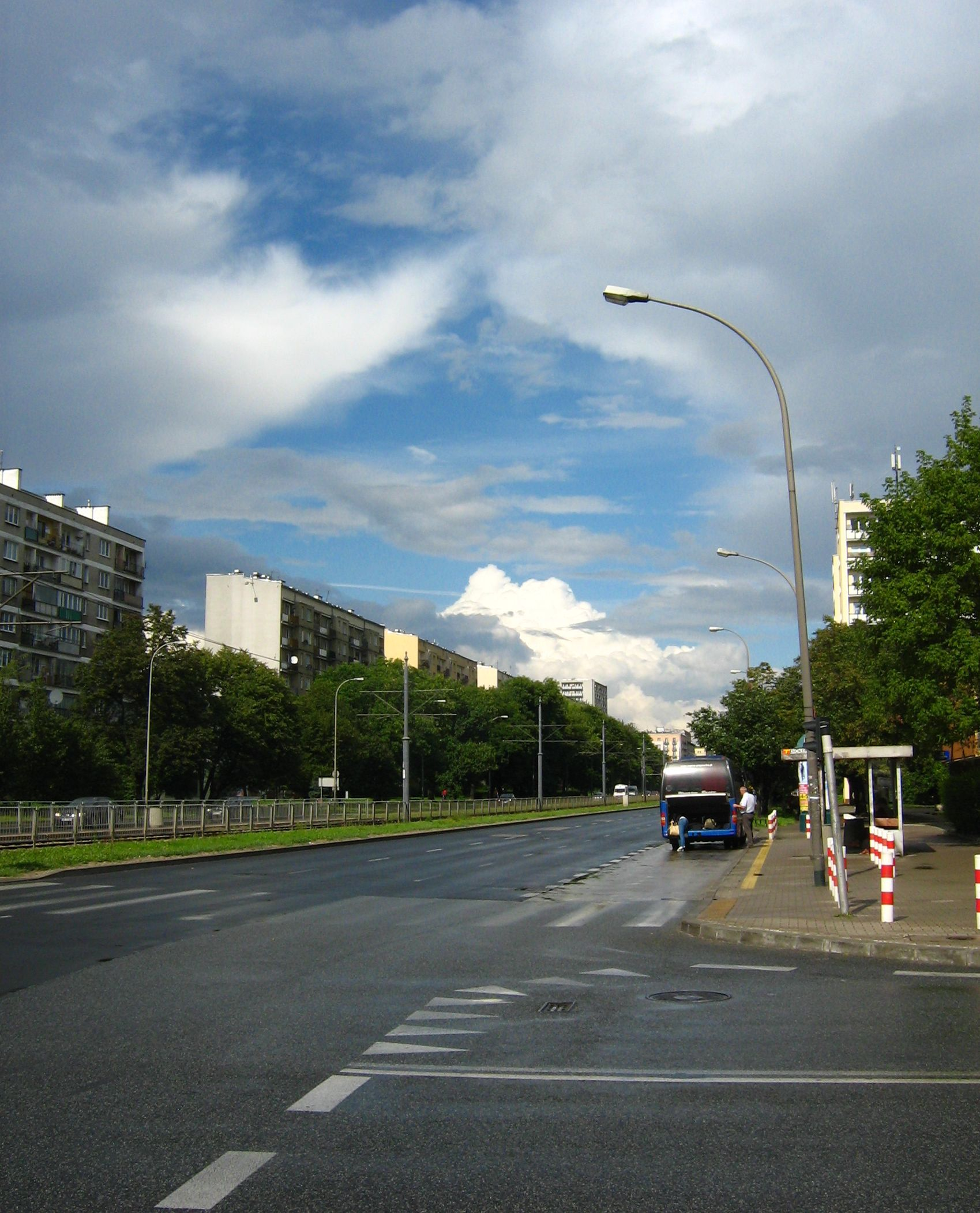 Grójecka street in Warsaw.